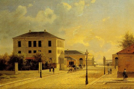 The HQ of the shipping company C.K. Hansen, Toldbodvej 5 (now Esplanaden 15), built 1856 to a design by G.F. Hetsch. Listed. The brick facades have later been painted white.